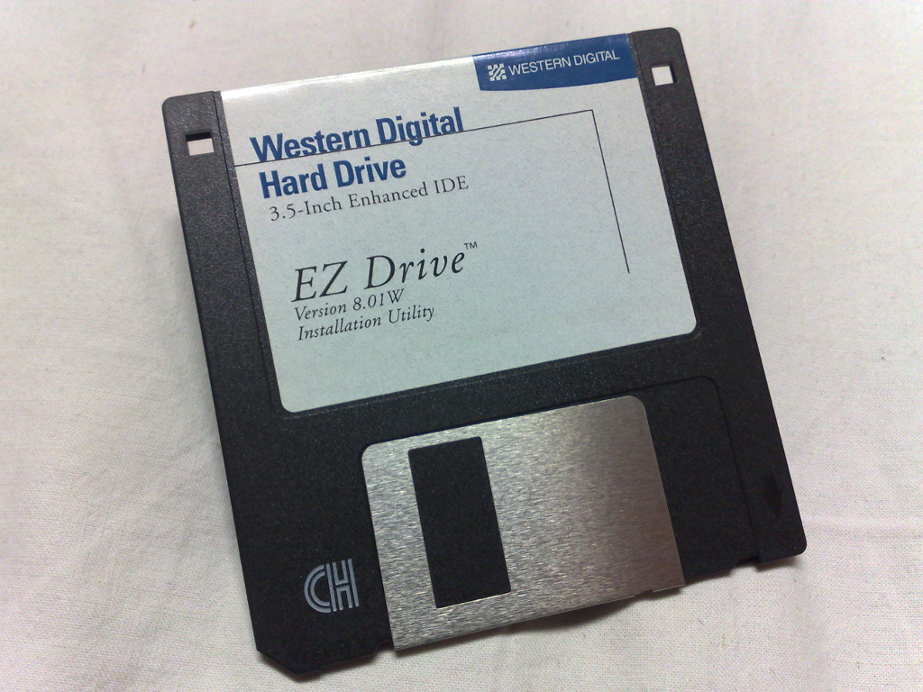 Installation of the Western Digital's EZ Drive, on a 3.5-inch floppy disk. It was used on older PCs during the transition to LBA, and allowed large HDDs to be used in older computers with non LBA-compliant BIOSes.